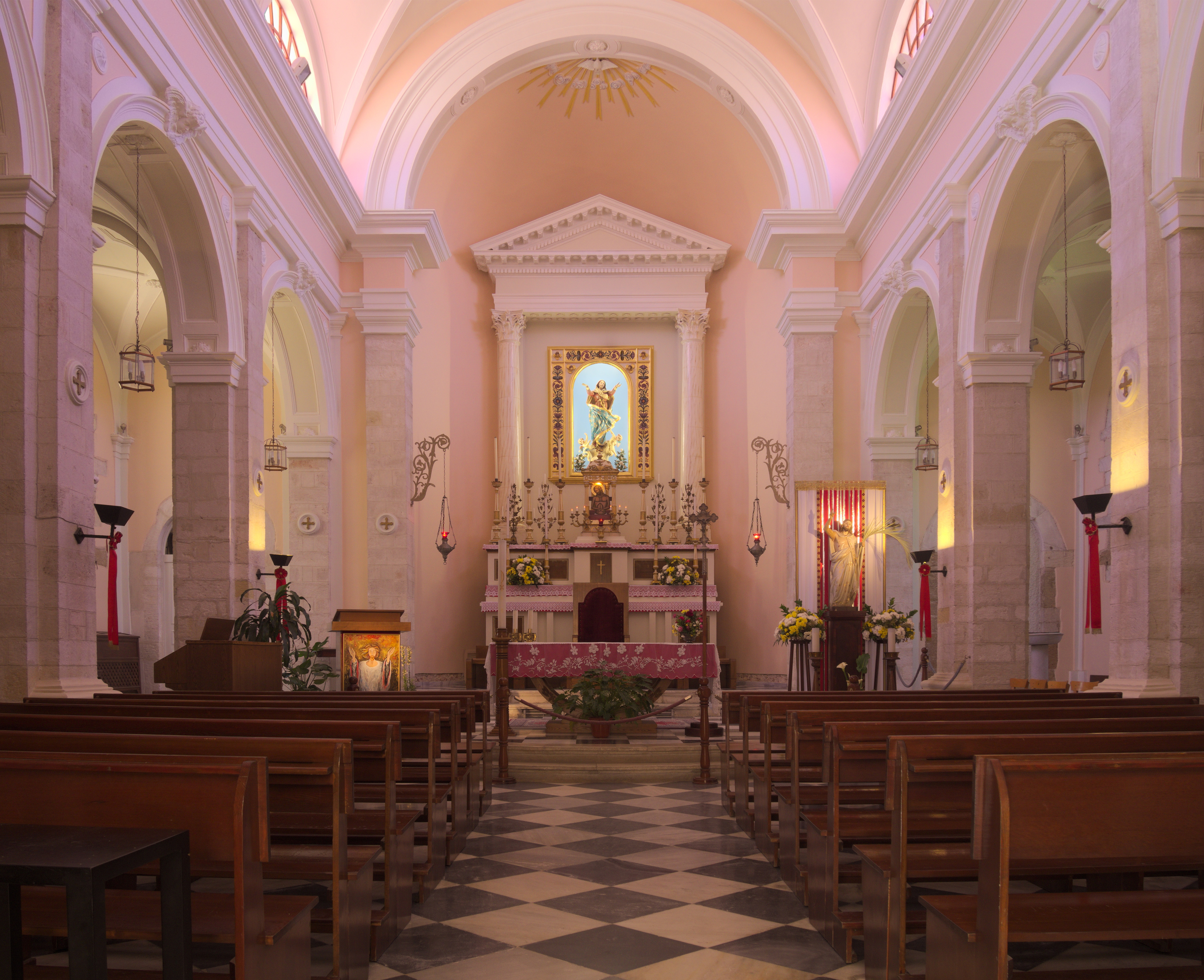 The interior of Chania catholic church, which is also the catholic cathedral of Crete.